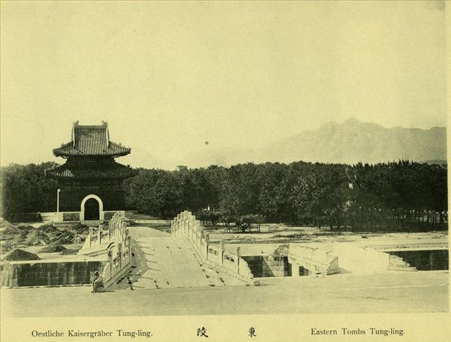 old photo from China 1900-1903, see the file's name for detail.